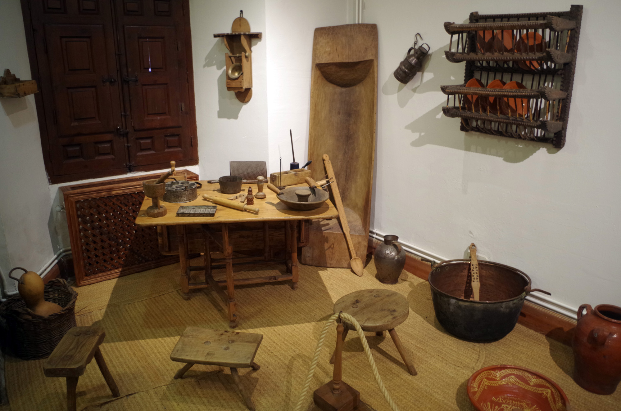 Kitchen utensils in Ávila Museum (Casa de los Deanes building) (Ávila, Spain).